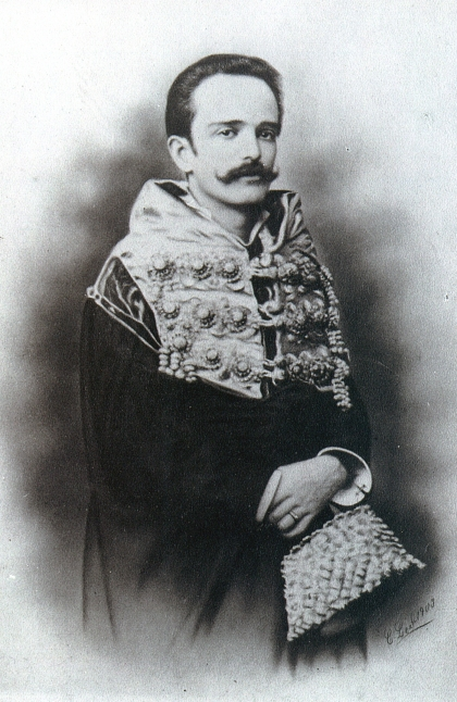 Bernardino Machado wearing his Doctorate dress.